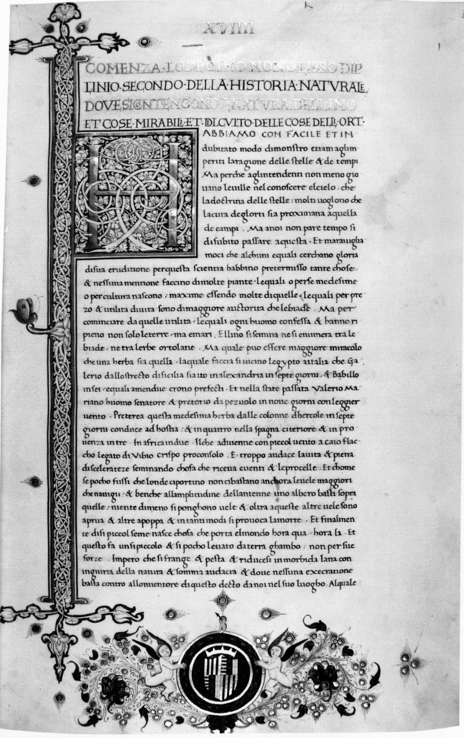 The first page of the 19th book of Pliny’s Natural History in the Italian translation by Cristoforo Landino. Dedication copy for king Ferdinand I of Naples. Manuscript: San Lorenzo de El Escorial, Real Biblioteca del Monasterio, h.I.2, fol. 1r.